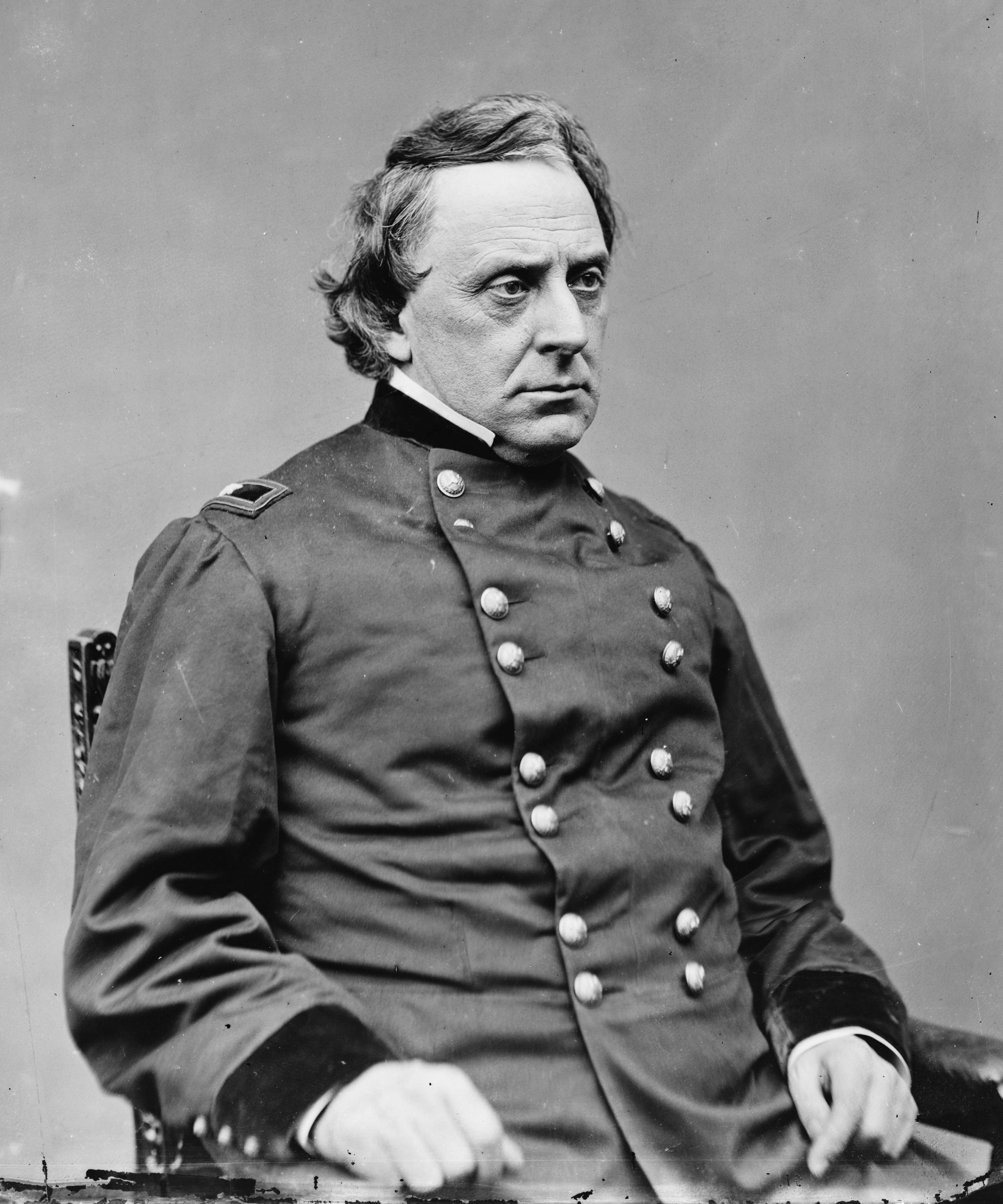 Gilman Marston. Library of Congress description: "Gen. Gilman Marston, U.S.A."